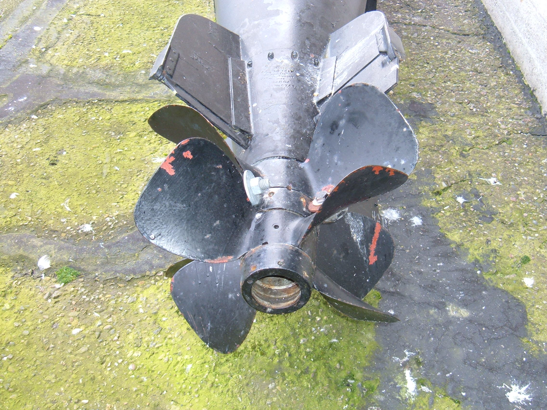 The propellers of a Mark XIV torpedo on display at the pier where the USS Pampanito (SS-383) is berthed at Fisherman's Wharf in San Francisco.